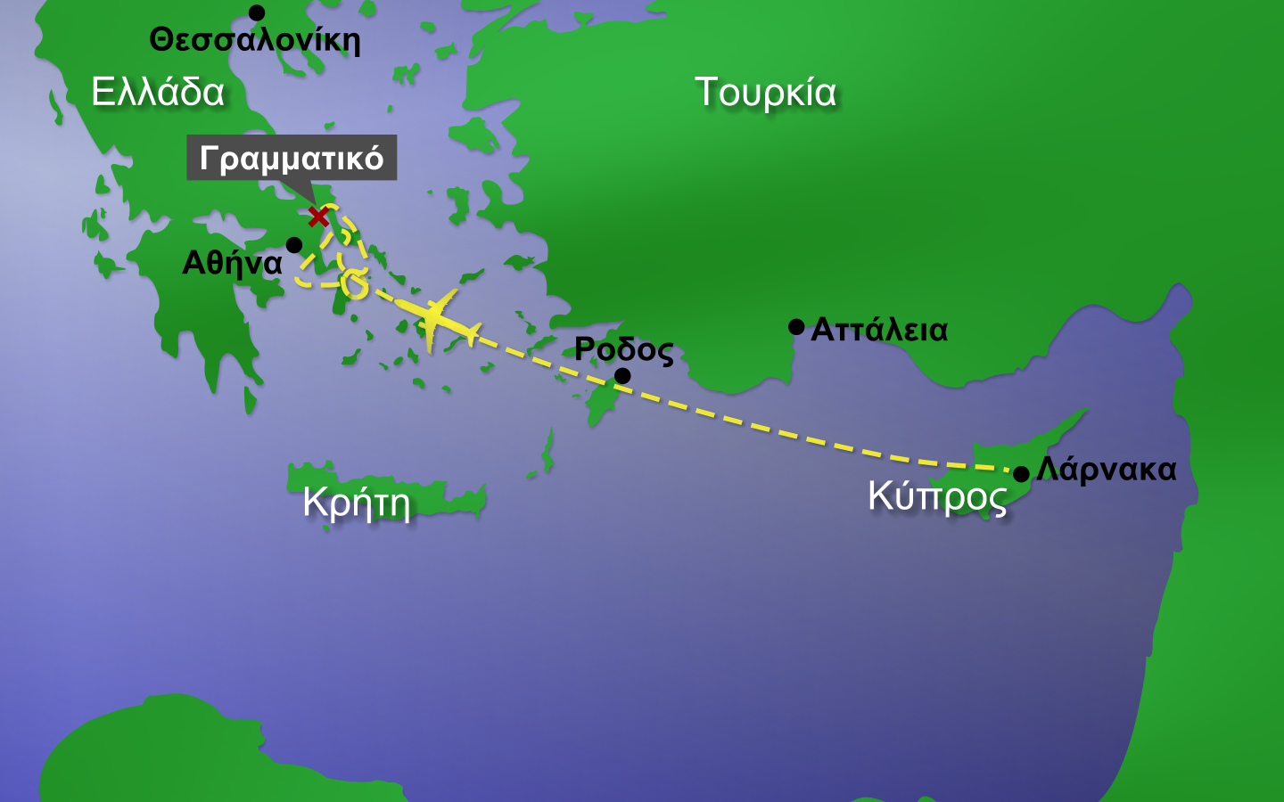 Map of Helios Airways Flight 522. Helios Airwyas Flight 522, crashed on August 14, 2005 near the community of Grammatiko in Greece. The map shows, how the flight proceeded. First, the autopilot controled the airplane in the direction of Athens airport. Then the airplane flew to the south and flew loops over the Ägais for about three hours. After that, the airplane flew in the direction of Athens airport again, until it crashed nearby Grammatiko.